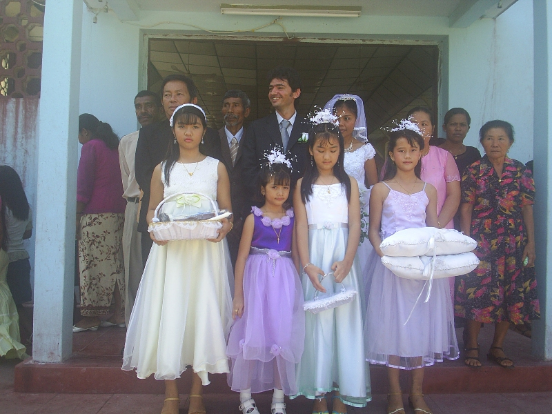 Photo of a wedding in East Timor, in the town of Liquiçá, on 10th June 2006: The little girls with the rings and baskets on the front row are all Hakka, as well as the mother of the bride on the far right and the witnesses (man and woman on both sides of the just-married couple). The bride is mestiza, Chinese-East Timorese. A lot of East Timorese people of Hakka descent have converted to Catholicism, even if they continue attending traditional Chinese ceremonies at Chinese temples. Source: [1]